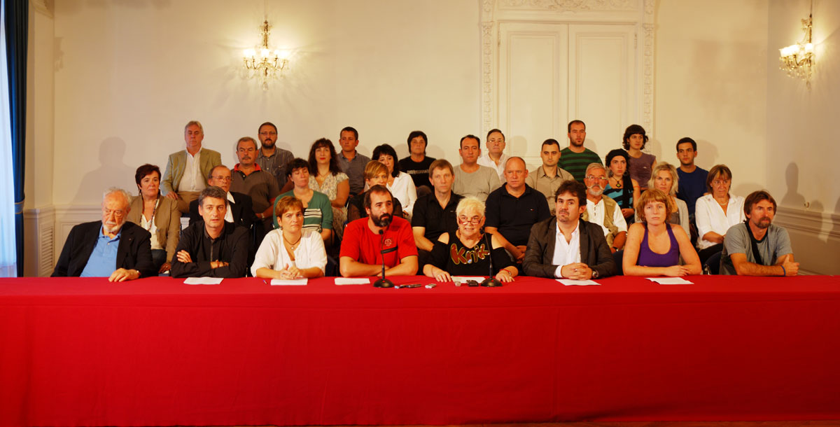 Public presentation of coalition for spanish elections by basque independentist and left sided parties